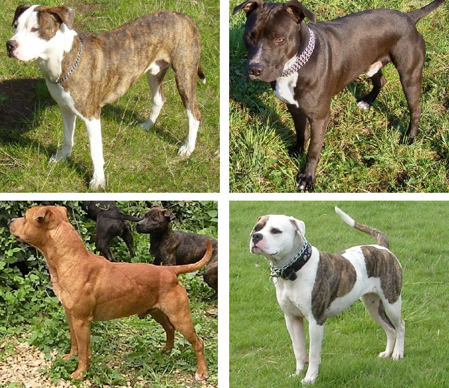 A selection of pit bull-type dogs, assembled from images from Commons. Original works: File:Chaman 001.jpg by User:Celticoak File:AmStaff6.jpg by User:Tatanga 2006 File:Pitbull (Bernnie).jpg by User:Marthy File:American_Bulldog_600.jpg by User:sannse